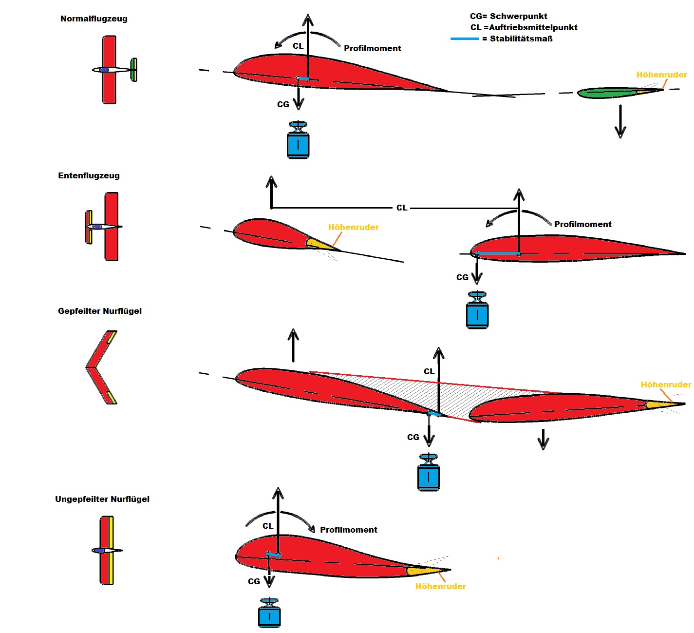 Flying Wing Stability